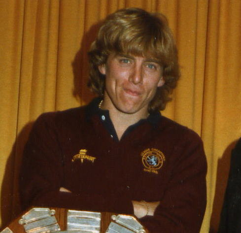 Aston Villa Footballer Tony Morley taken at a suppoters club presentaion night at Daventry in 1983.